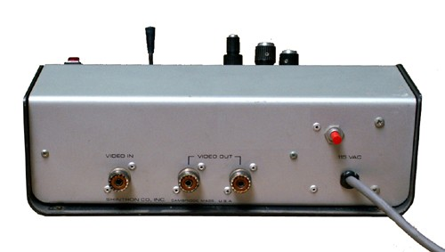 This image was taken on March 28, 2007 by Mike Sorensen and contributed to public domain.